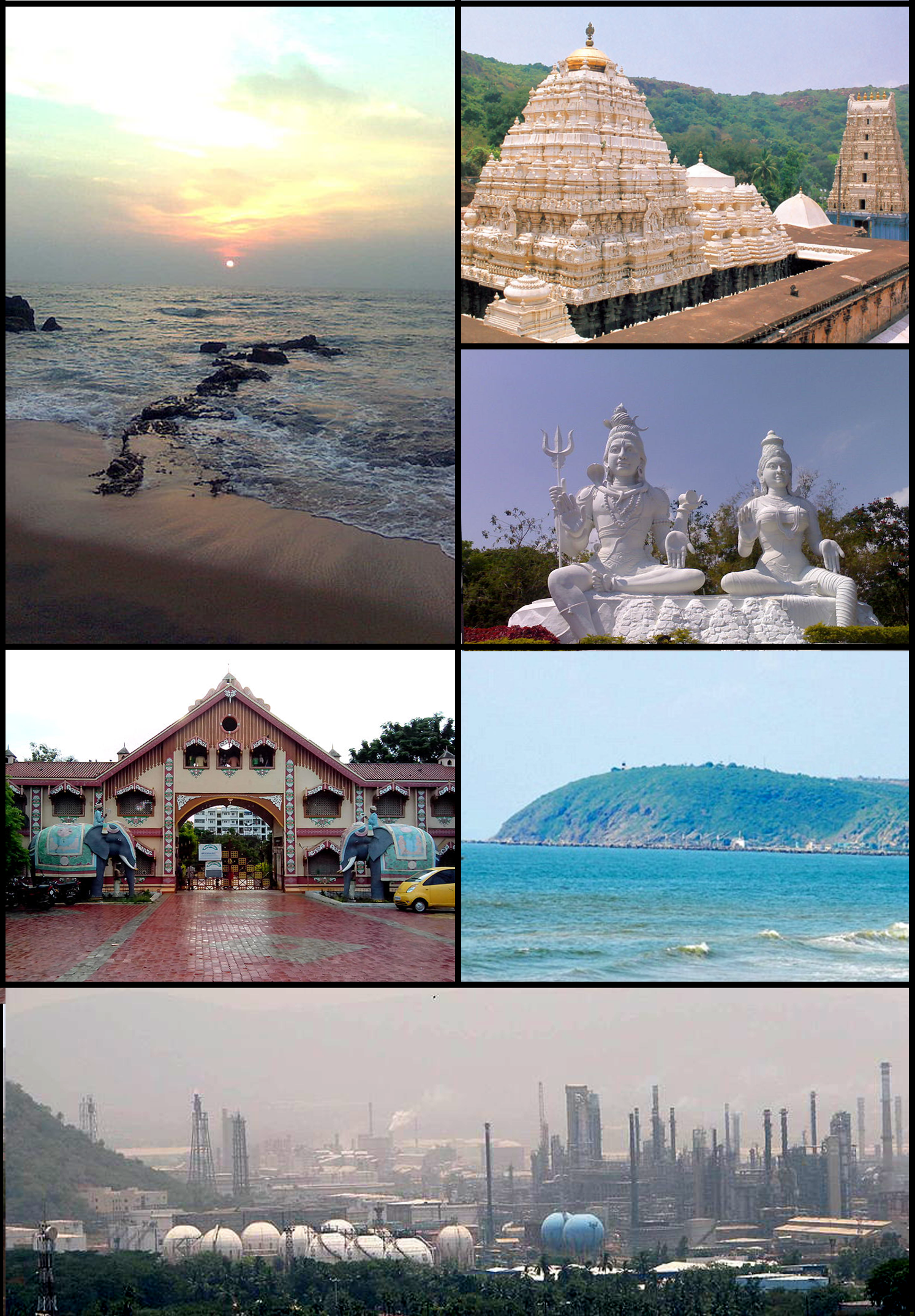 Montage of Visakhapatnam with Images from wikimedia commons